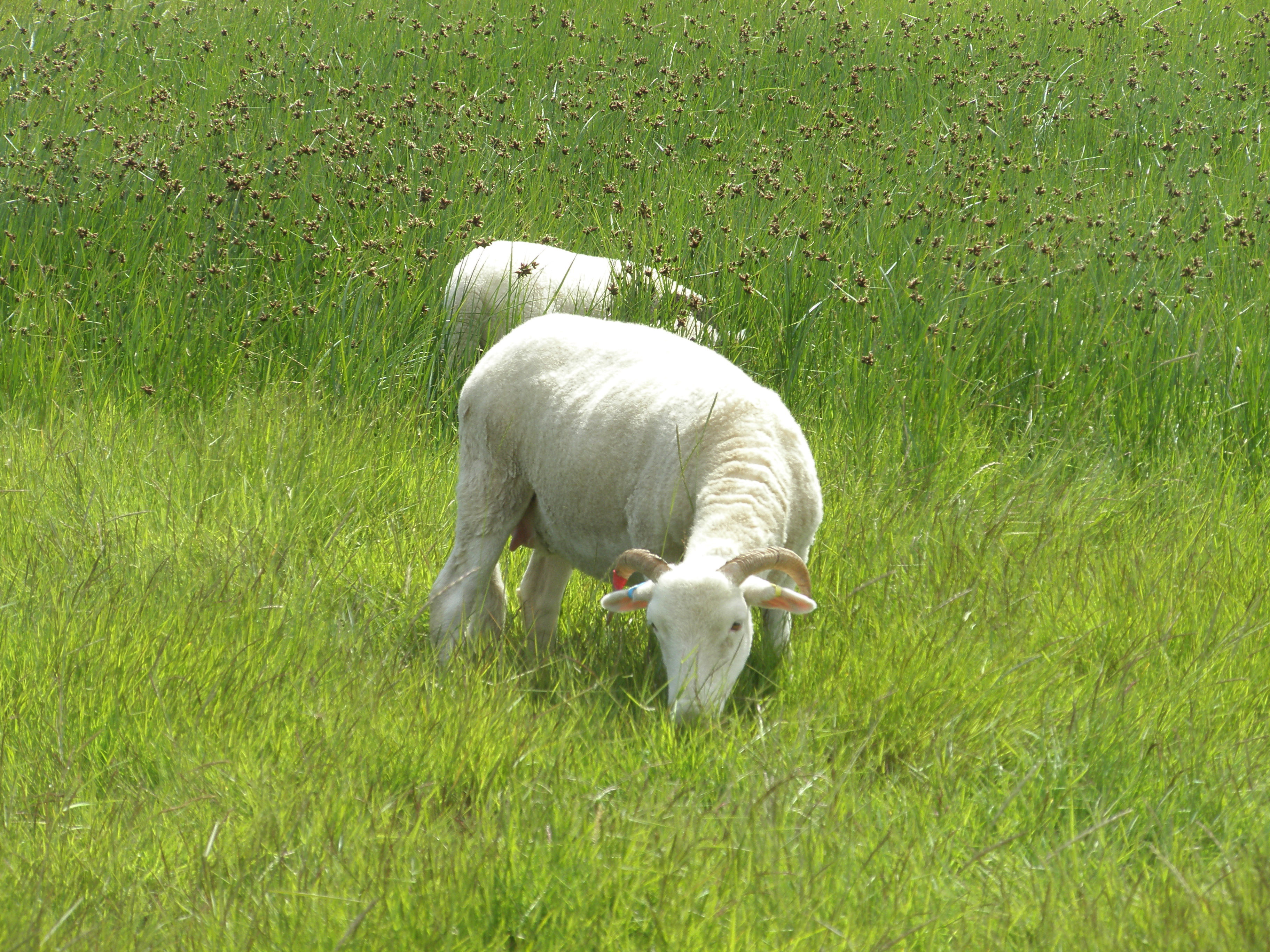 Orford Ness was, for most of the twentieth century, a military research station so secret that nobody knew what went on there, and so remote that even now most people have never heard of it. Yet the contribution of its scientists, service and civilian, to the winning of the First World War, the Second World War and the Cold War places them on a par with the codebreakers of Bletchley Park. At this highly atmospheric and often inhospitable location on the Suffolk coast, the Royal Flying Corps (later RAF) conducted crucial experiments and trials, some brilliant, others futile, on effective gunnery, accurate bombing and improved navigational aids.They also conducted trials here in aerial photography It was the venue for Watson Watt’s early work on radar and for Barnes Wallis’ improved Tallboy bomb. From 1953, the Atomic Weapons Research Establishment used it as the testing range for British nuclear bombs. In 1967 the world’s most powerful radar station, COBRA MIST, was constructed for the US Department of Defense. Why it was closed down is just one of many Orford Ness mysteries.